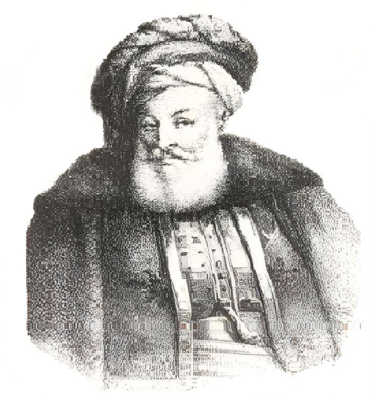 Ahmed bey an algerian leader (bey of constantine in 19th century)